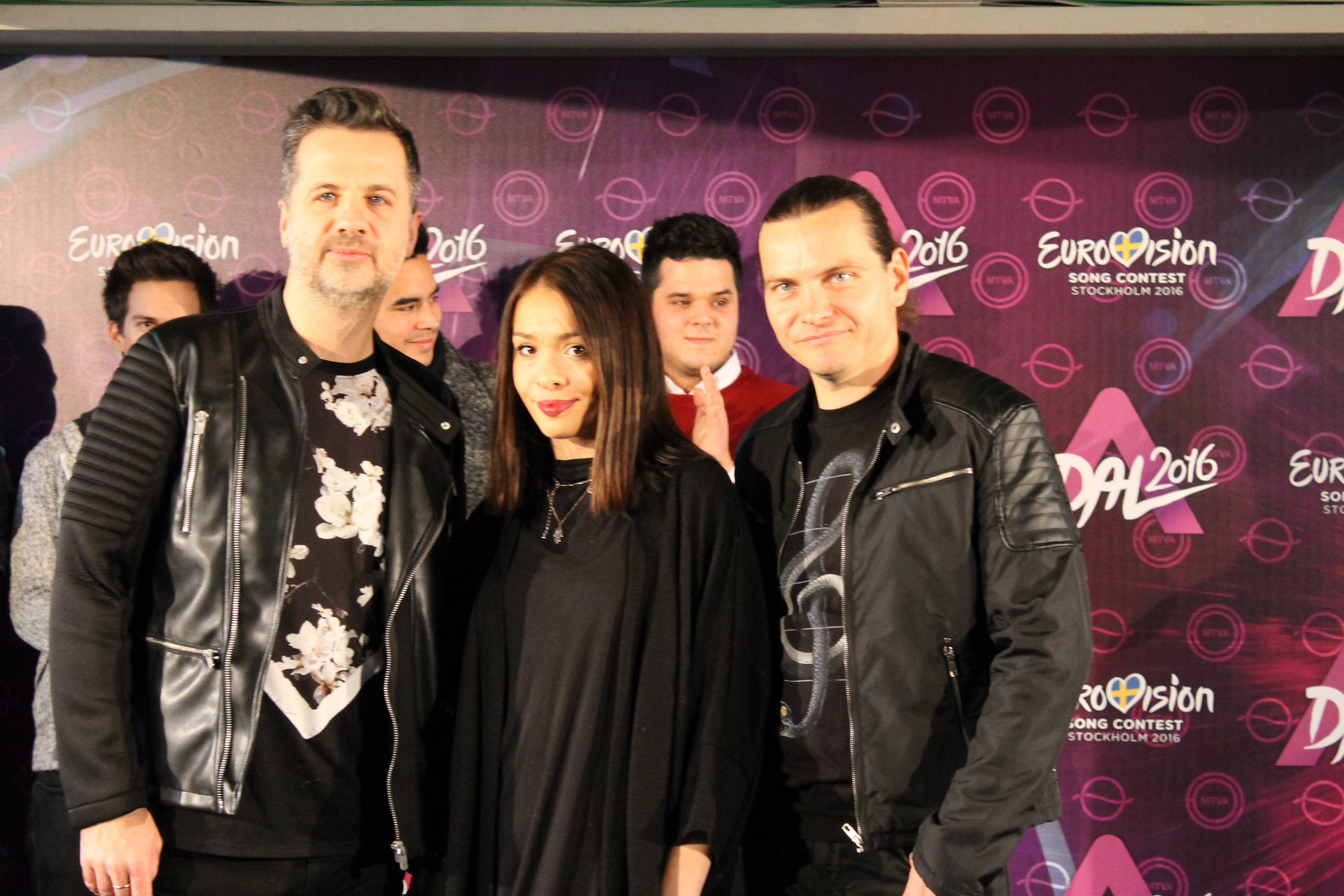 A Dal 2016 participant: Karmapolis & Böbe Szécsi